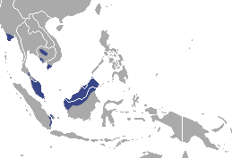 Hairy-nosed Otter (Lutra sumatrana) range